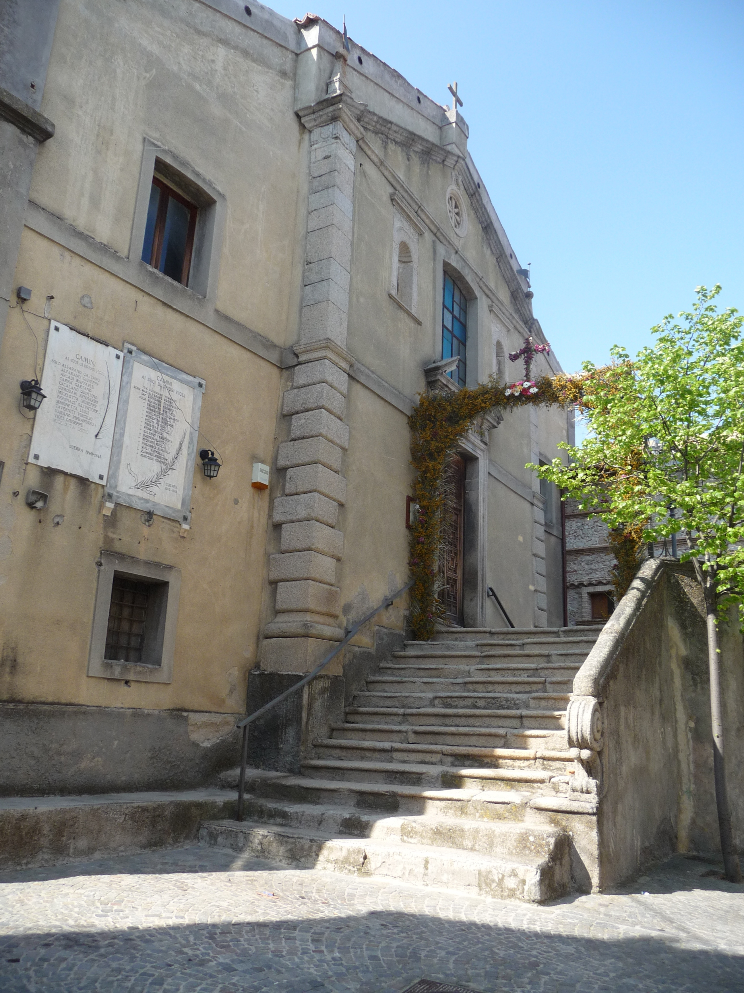 Church_Santa_Maria_of_Camini